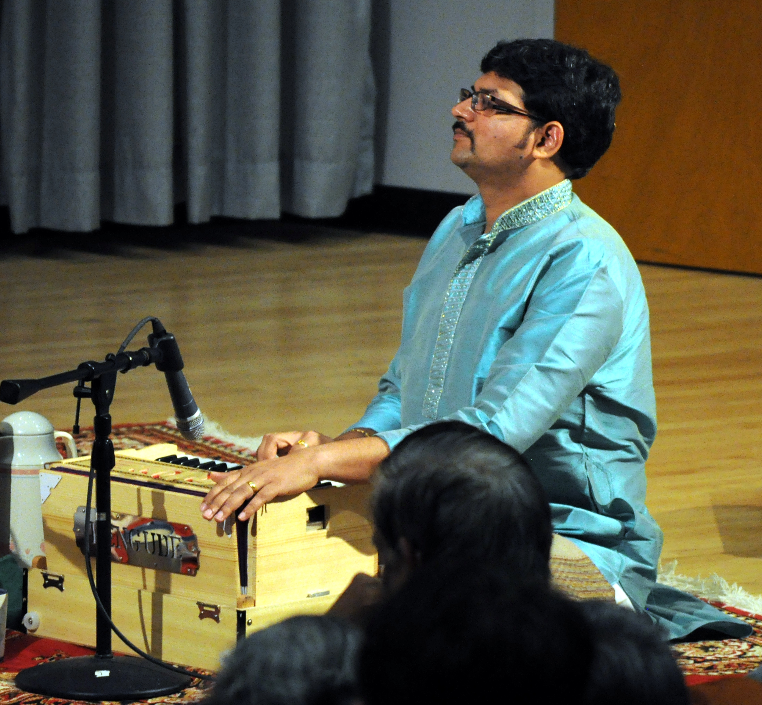 Shri Niranjan Lele (harmonium) accompanying vocalist Pt. Raghunandan Panshikar (not visible). Concert in the Seattle-based Ragamala series. Brechemin Auditorium, Music Building, University of Washington, Seattle, Washington, USA.